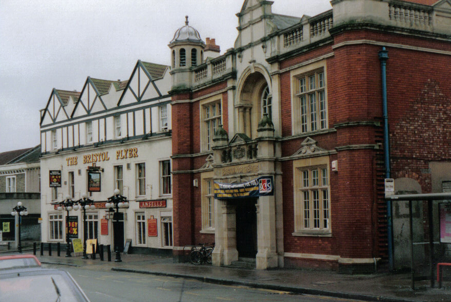 On the left of this 1999 photo taken in Gloucester Road, Bristol is the Bristol Flyer pub, with the Bristol North Baths on the right. The Baths closed in October 2005, and the premises are empty at present. If you're a fan of BBC comedy 'Only Fools and Horses', the Baths were the location for the Police Station in the final scene of the 1988 Only Fools and Horses Xmas special 'Dates'. The Bristol Flyer pub was also used in that episode as the Nags Head, in the scene where Del clocks Trigger taking a girl to dinner. Fans of another BBC comedy series 'The Young Ones', may also recognise the baths from the 1984 episodes 'Cash' (as the Police Station) and 'Summer Holiday' (as the "Fascist Pig Bank"). The full list of the external locations used by the BBC for the Nags Head in Only Fools over the years is as follows:- The Alma, 78 Chapel Market, Islington, London (in 'It never Rains and 'Diamonds are for Heather' 1982) The Bolton Hotel, 81 Duke Road, Chiswick, London (in 'Who's a Pretty Boy?' 1983) NB - This pub ceased trading in 1995 and is now residential. Prince Arthur (now known as Number 10), Golborne Road, Kensal Town, London (In 'Hole in One' 1985) Bristol Flyer, 96 Gloucester Road, Bishopston, Bristol (In 'Dates' 1988) Waggon & Horses, 83 Stapleton Road, Easton, Bristol (In 'Dates' 1988) NB - The pub ceased trading in 2007 and is now derelict. White Horse, 166 West Street, Bedminster, Bristol (In 'Chance of a Lunchtime' 1991) Middlesex Arms, Long Drive, South Ruislip (In 'Miami Twice - part 1' 1991) White Admiral, Taunton Road, Brighton (In 'Mother Nature's Son' 1992) NB - This pub closed in 2000, and has since been demolished.